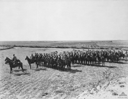 C Squadron, 14th Light Horse Regiment, Australian Army, at Homs, Syria.